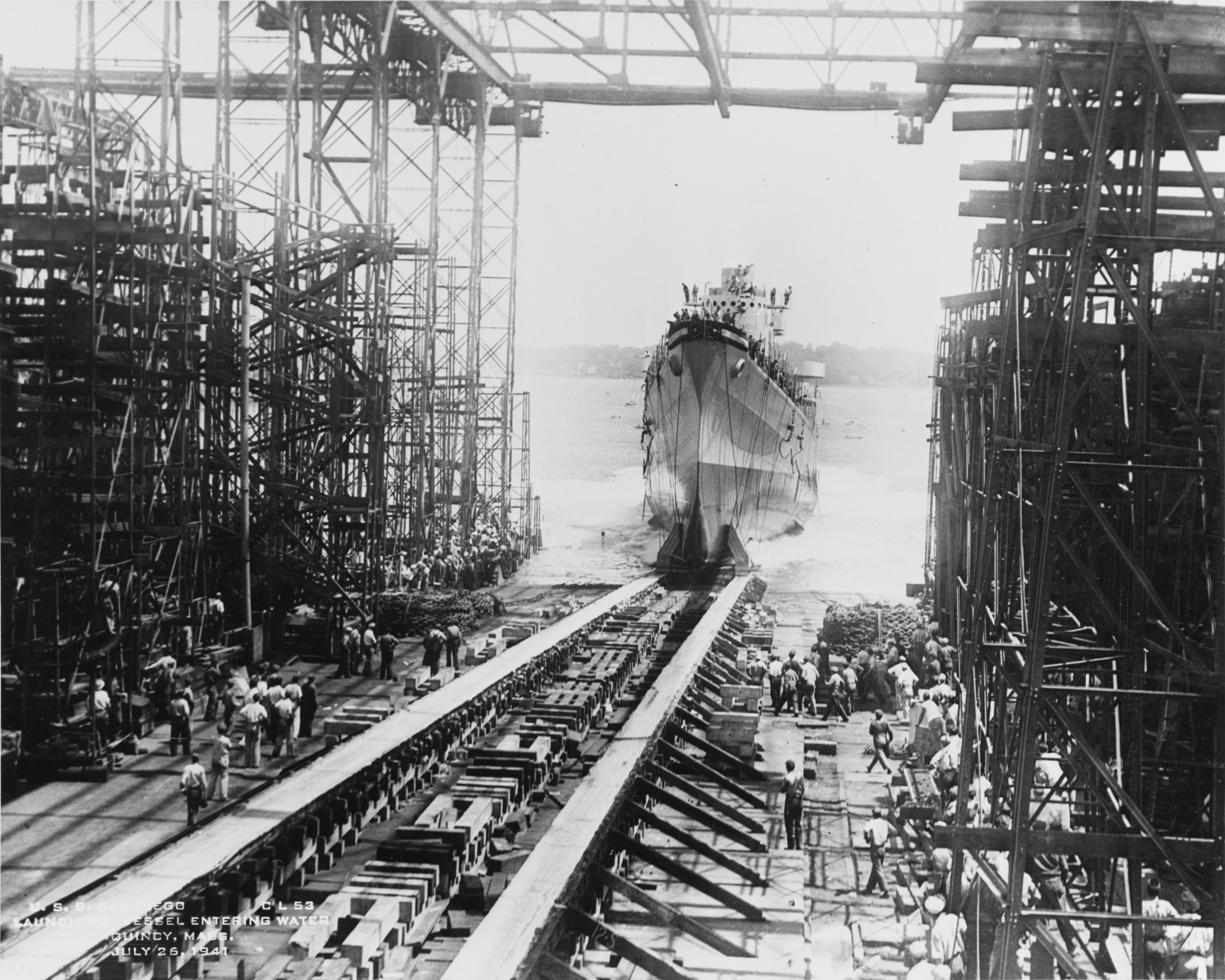 The U.S. Navy light cruiser USS San Diego (CL-53) slides down the shipways during her launching at the Bethlehem Steel Company Fore River Shipyard, Quincy, Massachusetts (USA), on 26 July 1941.Photograph from the Bureau of Ships Collection in the U.S. National Archives.